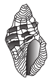 Drawing of apertural view of the shell of Thais clavigera.